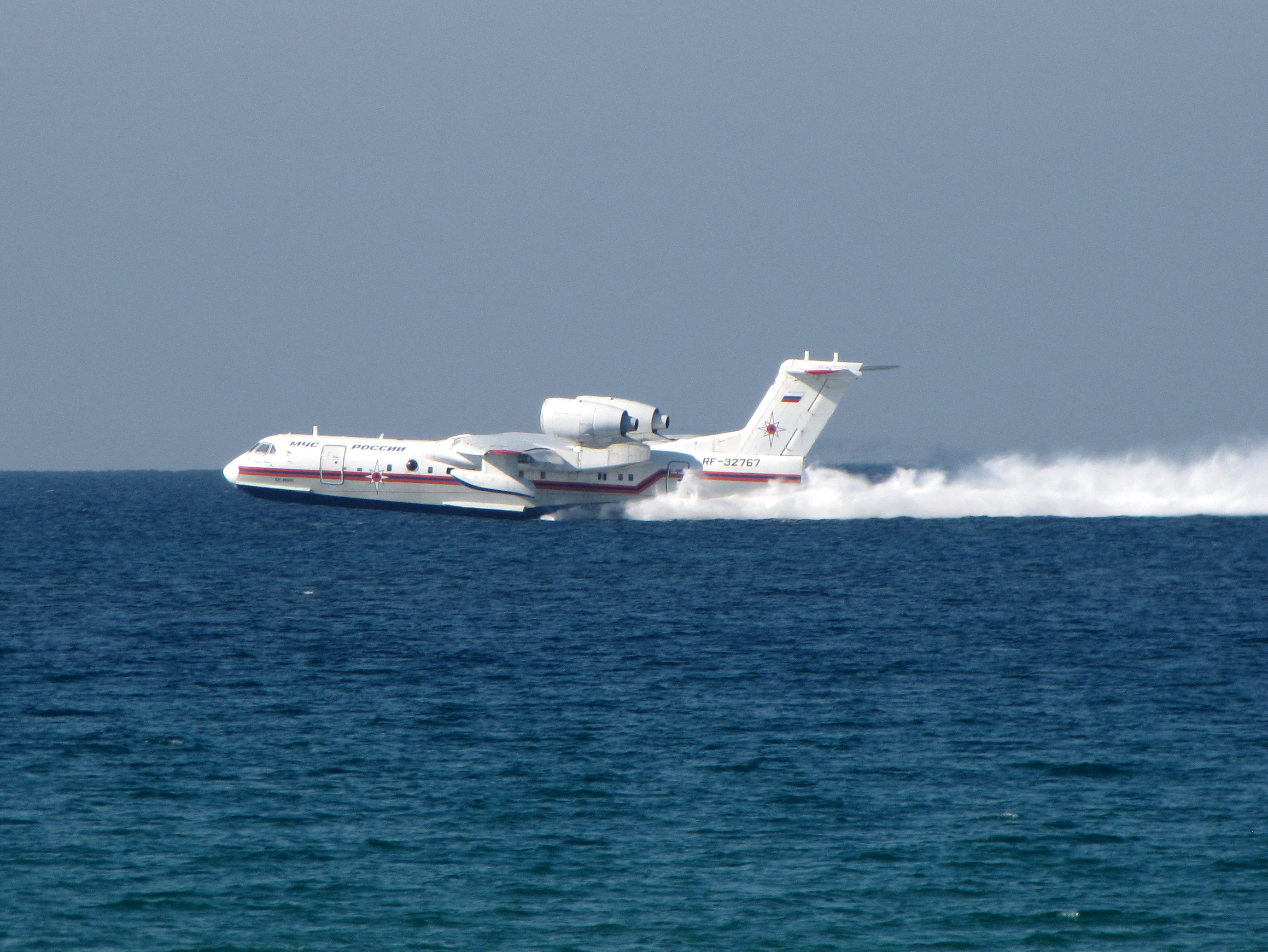 Beriev Be-200, belonging to the Russian Ministry of Emergency Situations, filling water tanks in the Mediterranean Sea while in operation in 2010 Mount Carmel fire in Israel